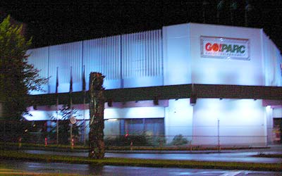 Go!Parc dance club in town of Herford, District of Herford, North Rhine-Westphalia, Germany.